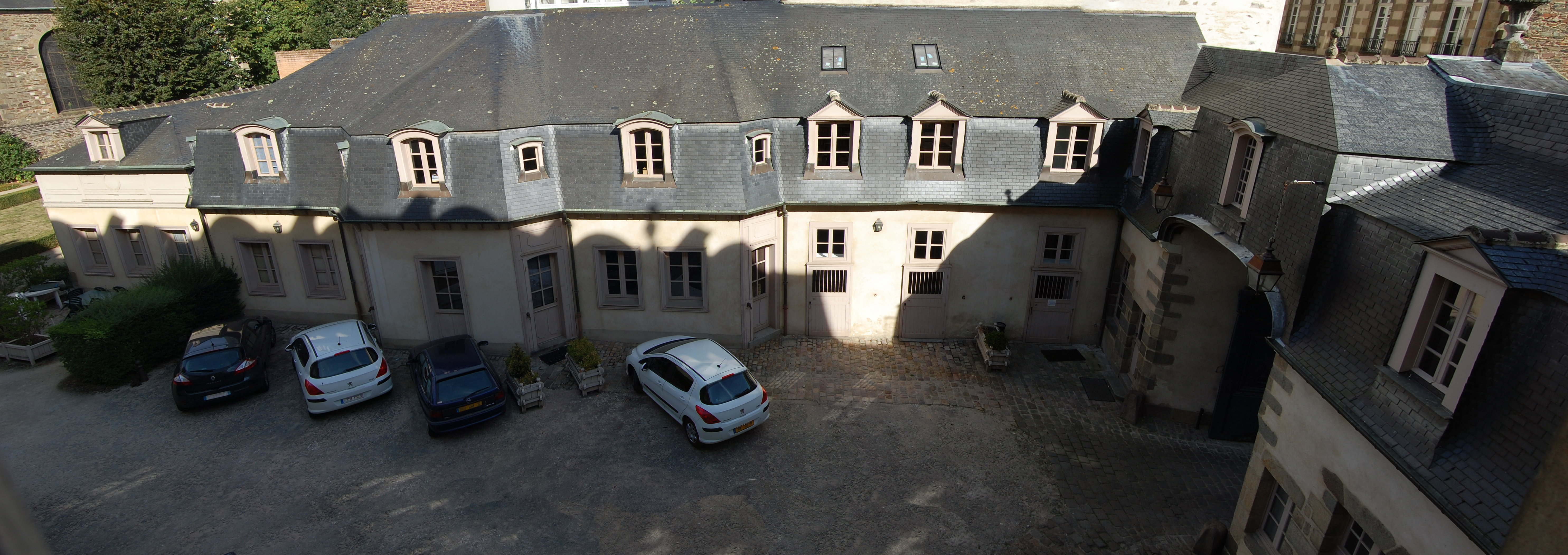 Hôtel de Blossac, stables